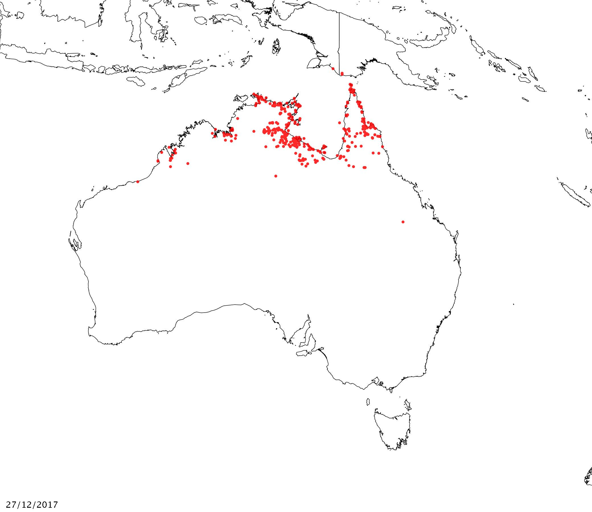 Distribution map of Melaleuca acacioides